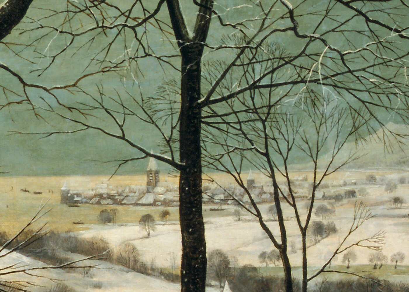 Pieter Bruegel the Elder - Hunters in the Snow Detail Remote Town